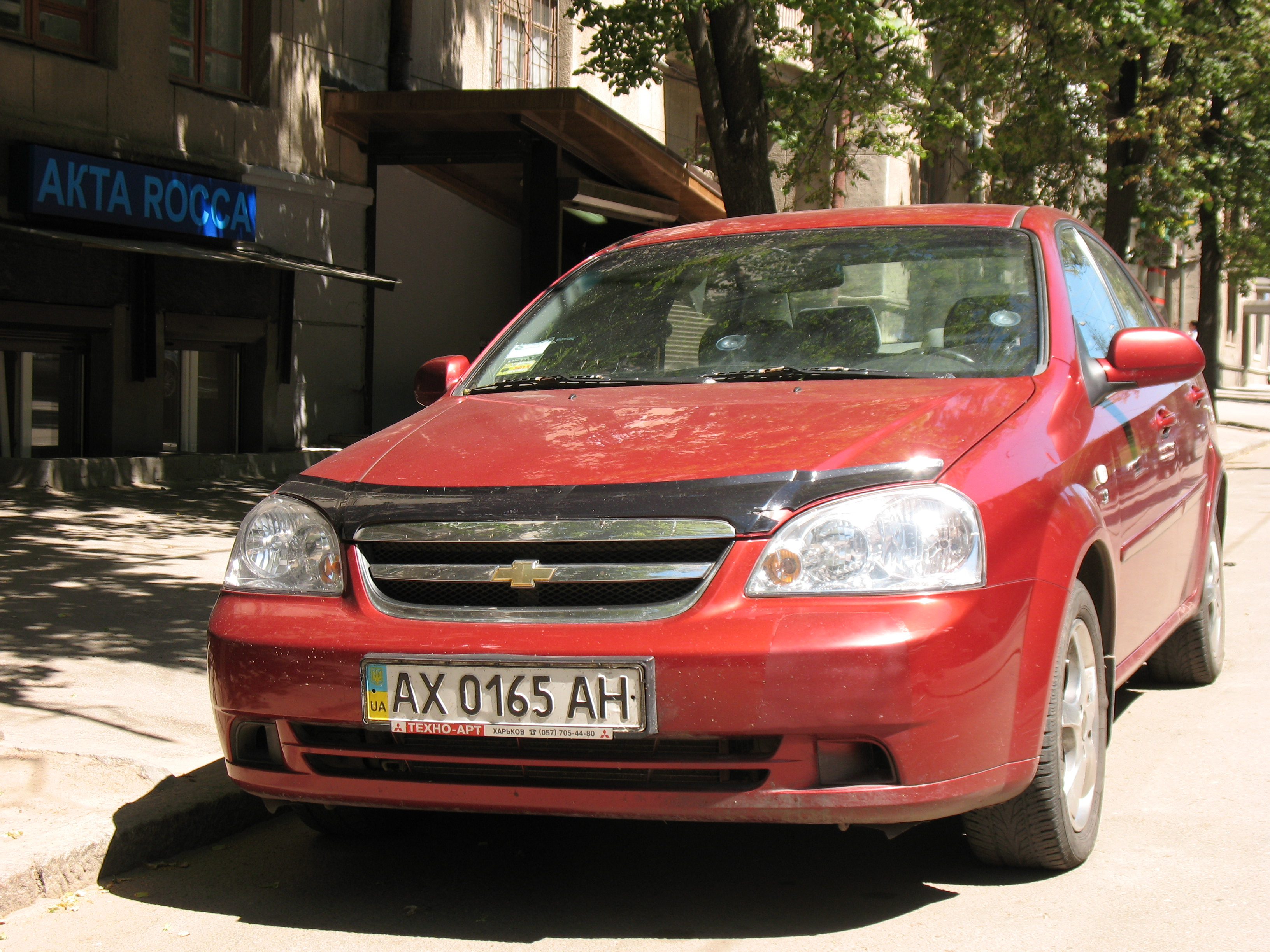 Red "Chevrolet Lacetti" in Kharkov.